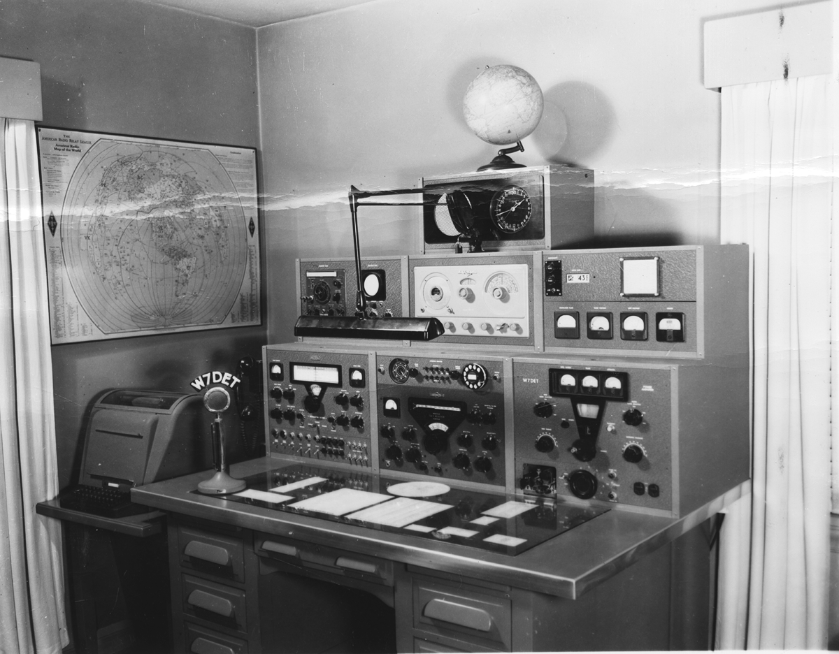 Amateur radio equipment, Seattle, 1957. Call letters: W7DET. Item 75822, Clerk File 232427 (Record Series 1802-01), Seattle Municipal Archives.